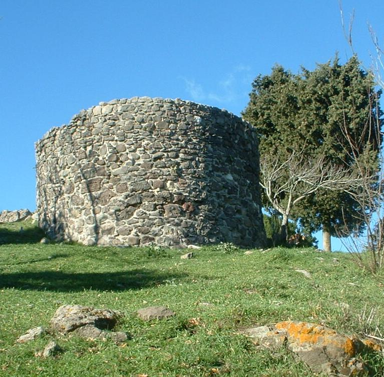 Buccheri (SR), The Castle.